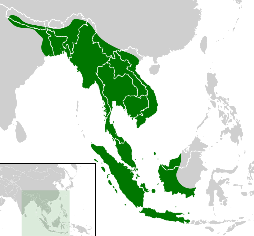 Distribution map of Cyclemys oldhamii